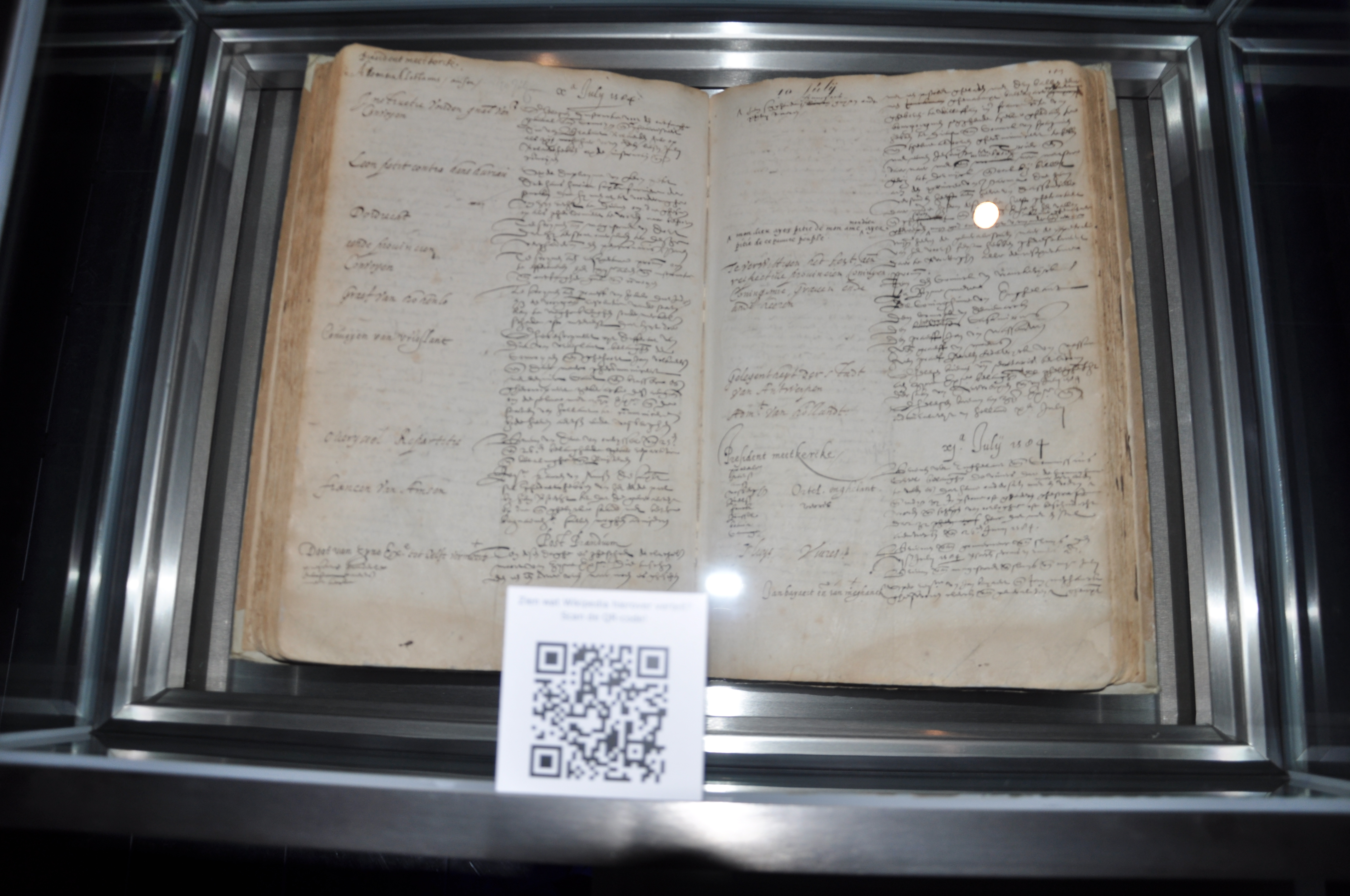 Book containing the last words spoken by Willem van Oranje. Location of object is the Verdieping van Nederland. Photo taken during the Backstage event ("Achter de schermen") for Wikipedians at the National Library and National Archives of the Netherlands on 8th June 2013